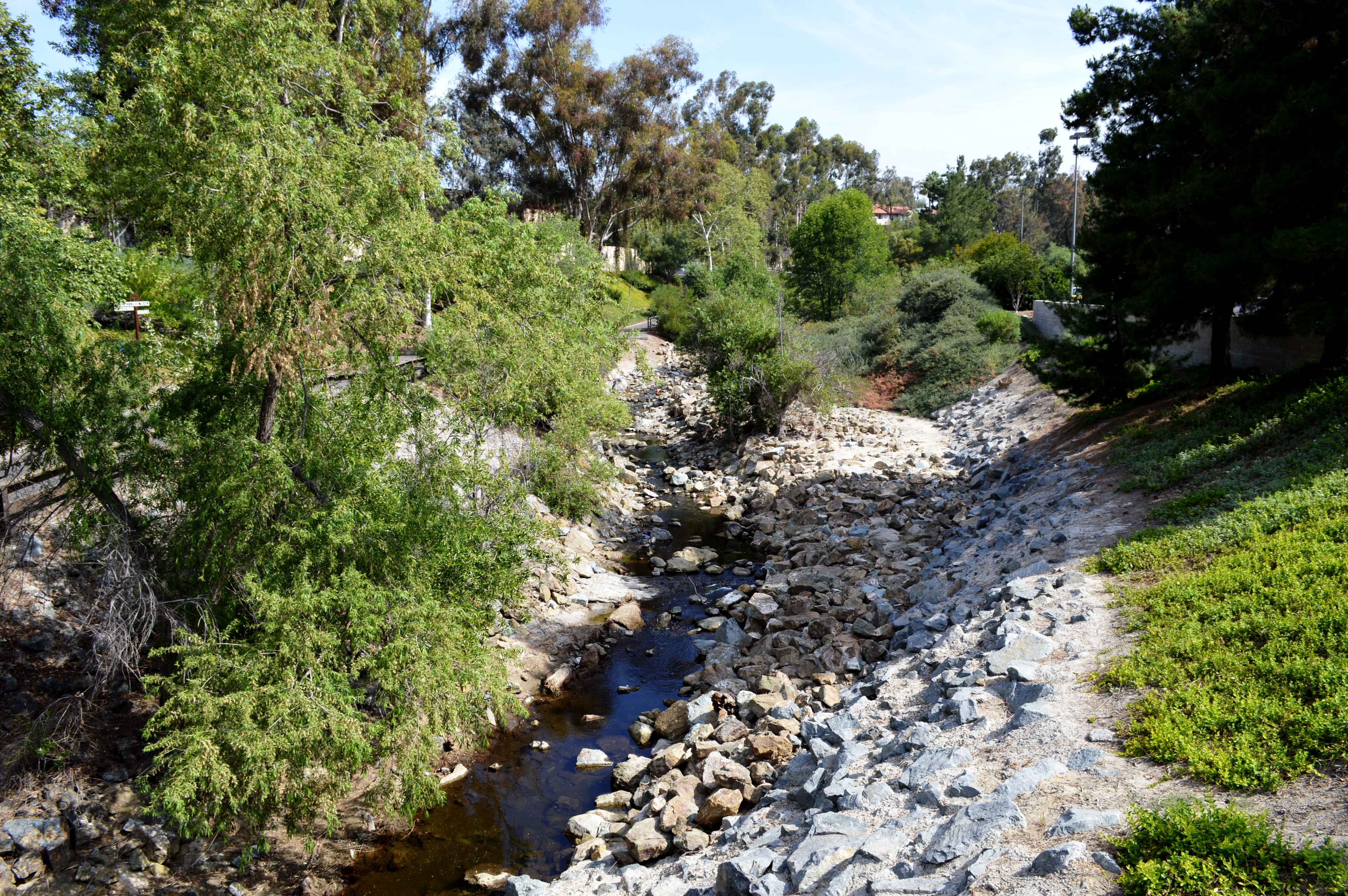 Oso Creek in Orange County, California - as seen from the La Paz Road bridge in Mission Viejo, 1 block east of the Mission Viejo Civic Center.